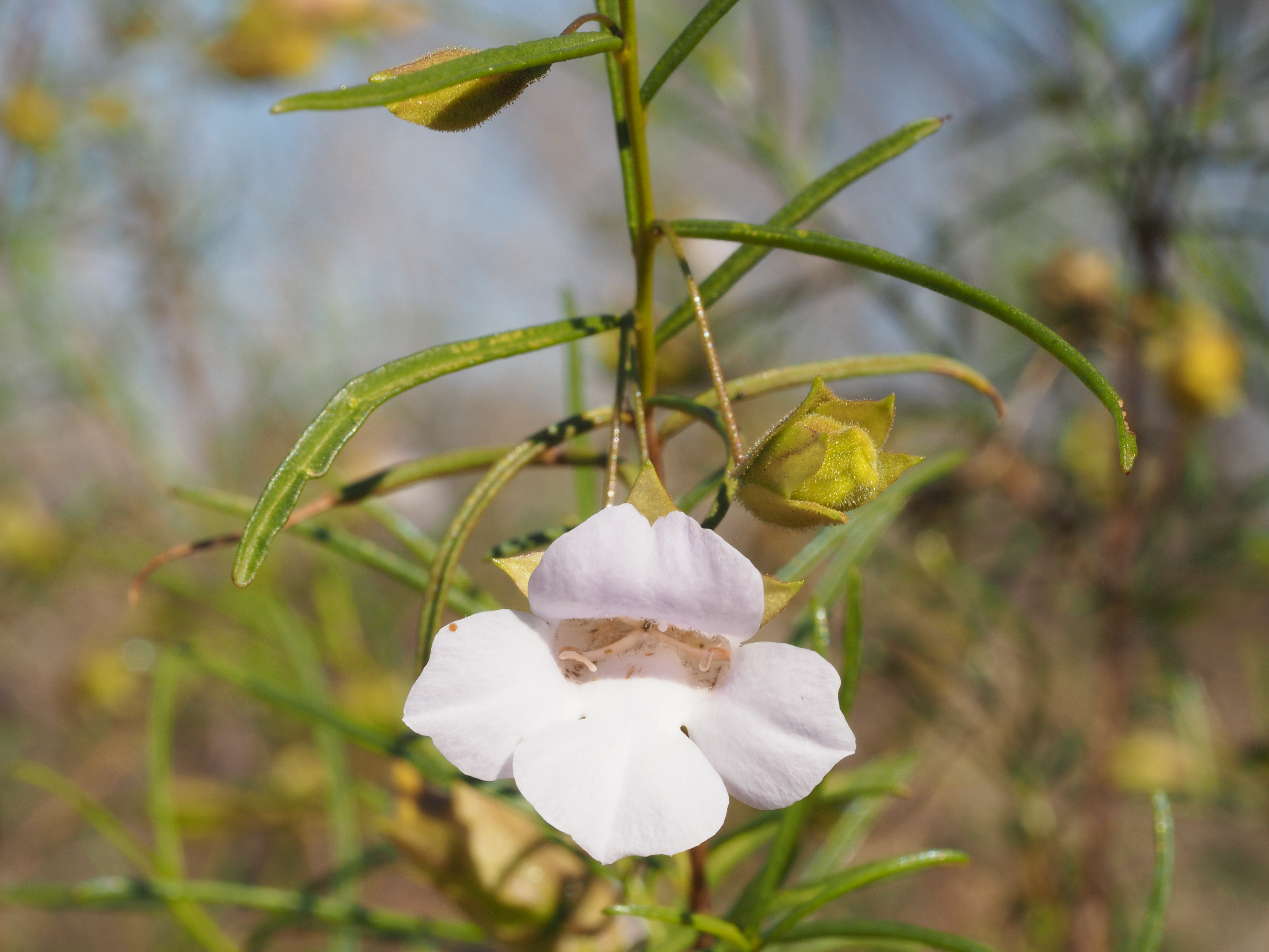 Eremophila spuria growing 3.5km west of "Congo Creek"